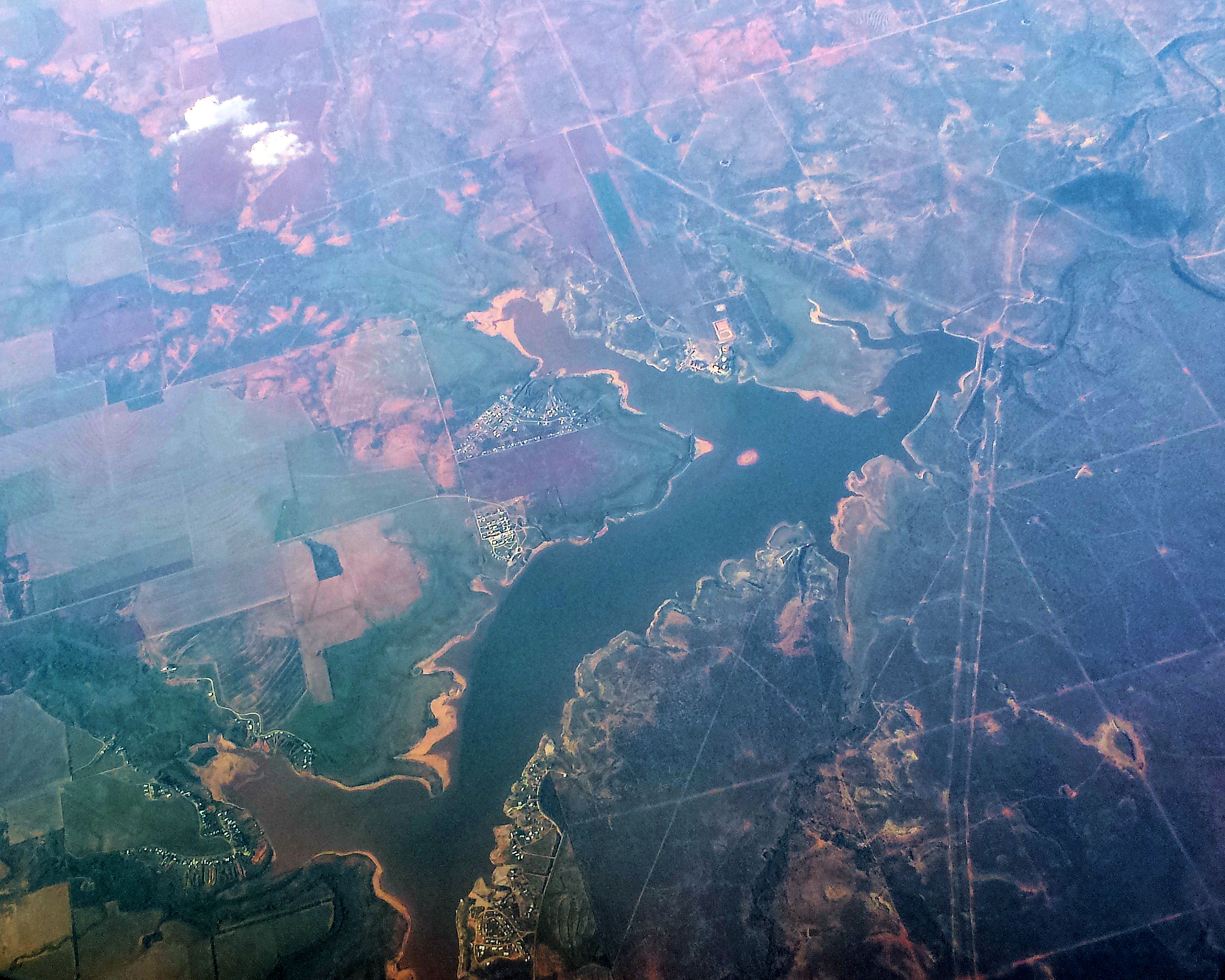 Lake Stamford, Haskell County, Texas, from commercial airliner, altitude 34,000 ft, looking north